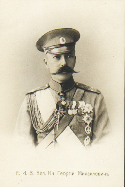 Grand Duke Georgi Mikhailovich of Russia (1863-1919)